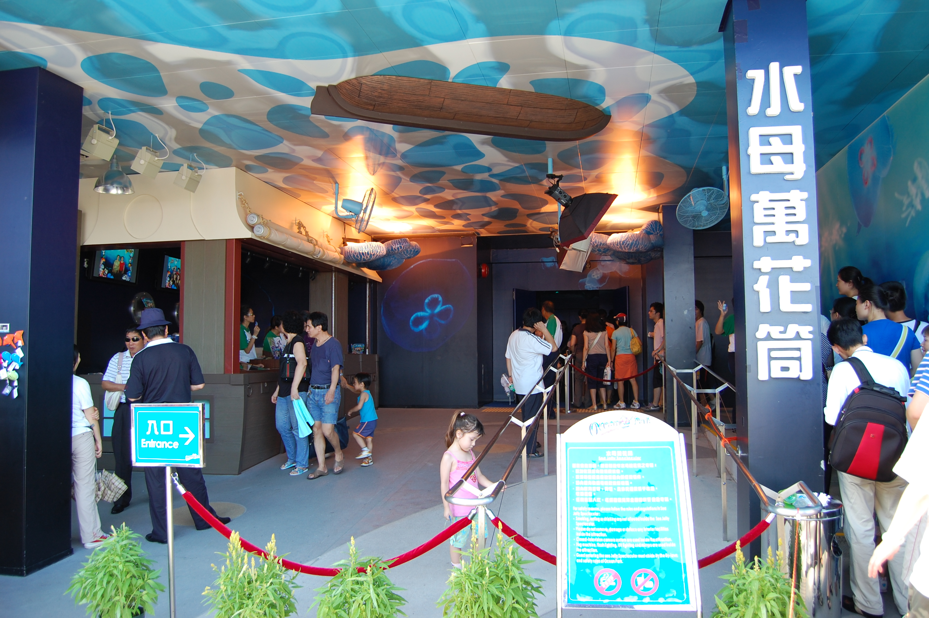 Sea Jelly Spectacular entrance.